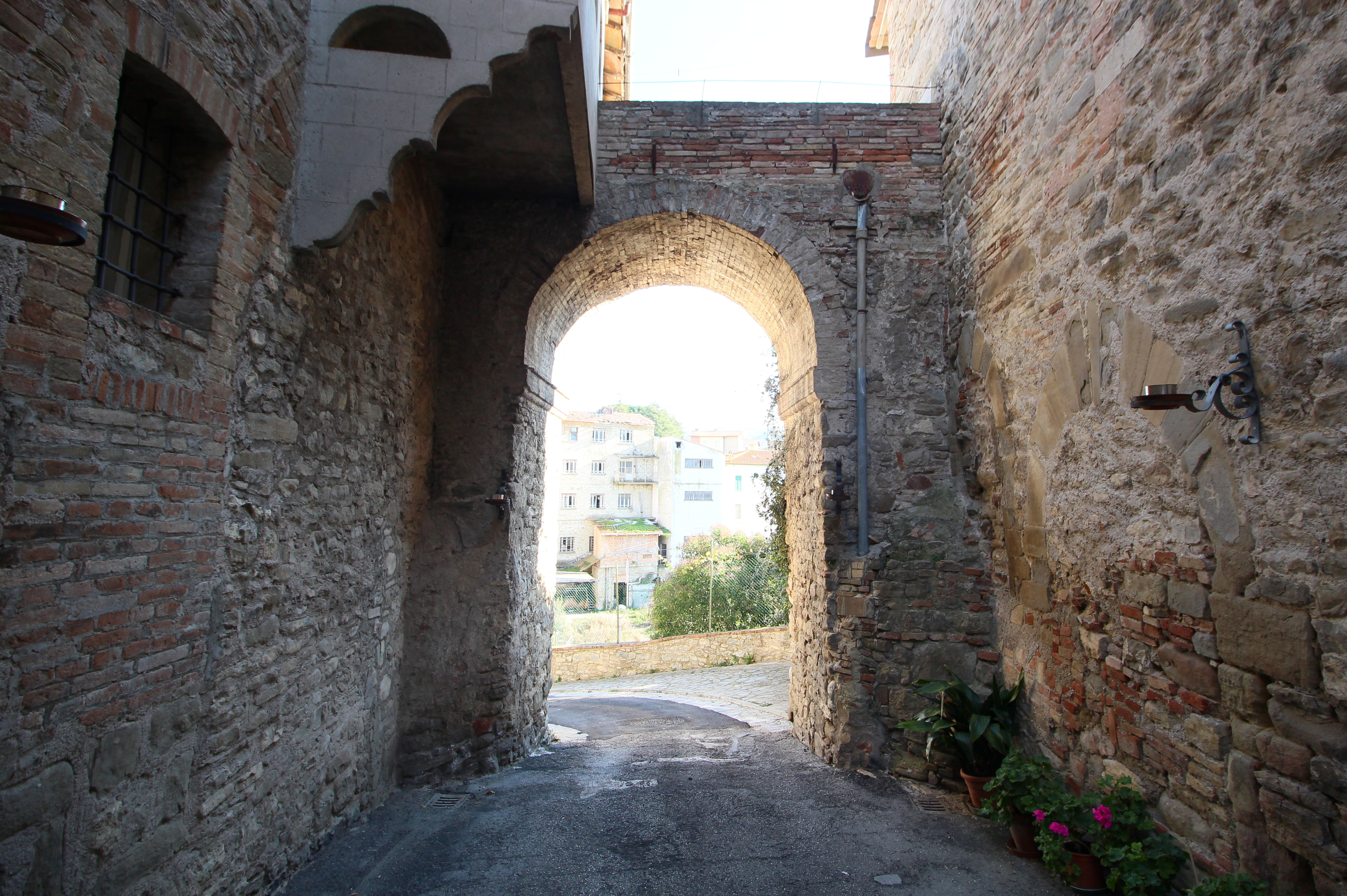 defensive walls of Valfabbrica, Province of Perugia, Umbria, Italy